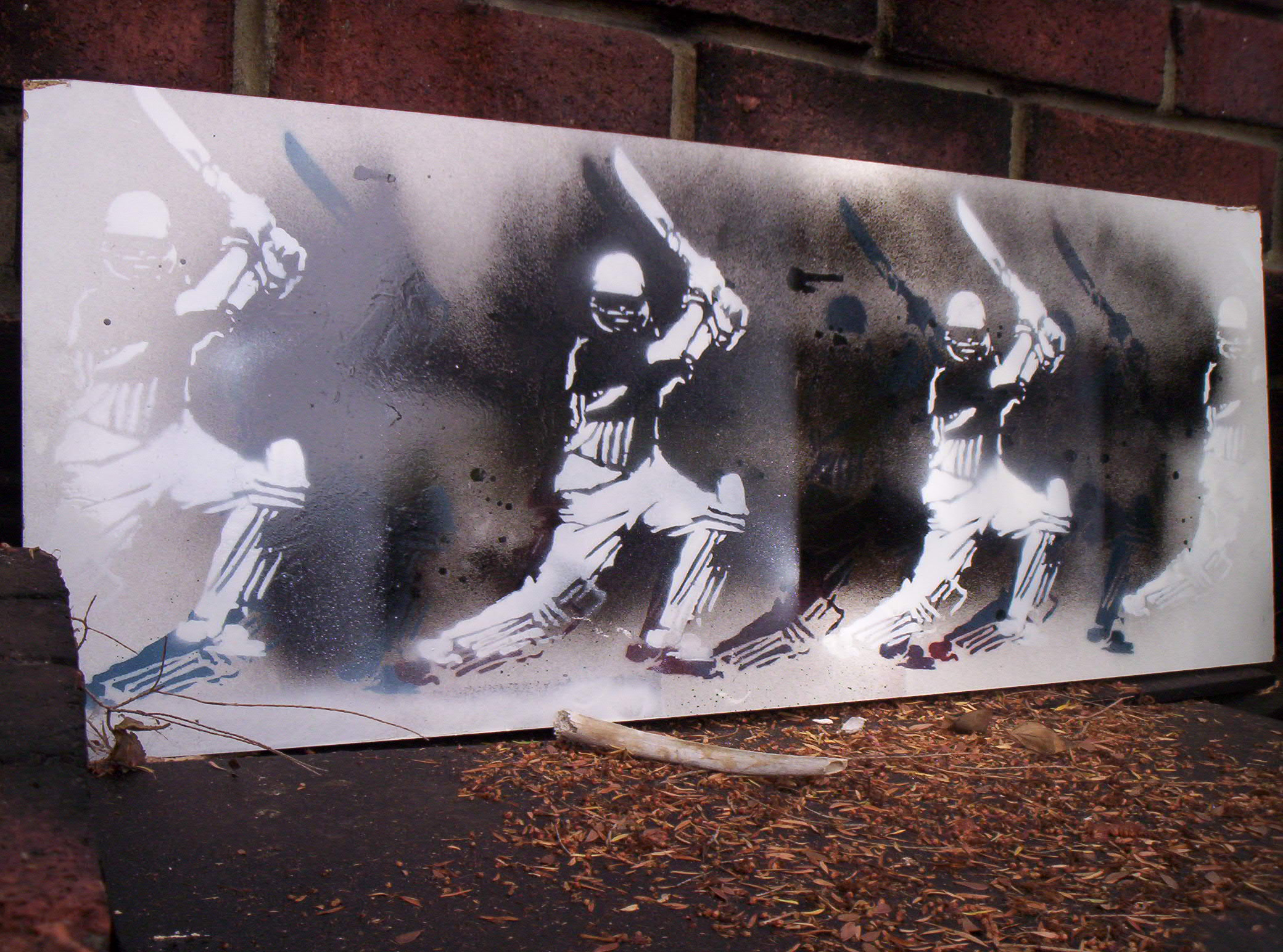 stencil of steve waugh - photo by elliot k